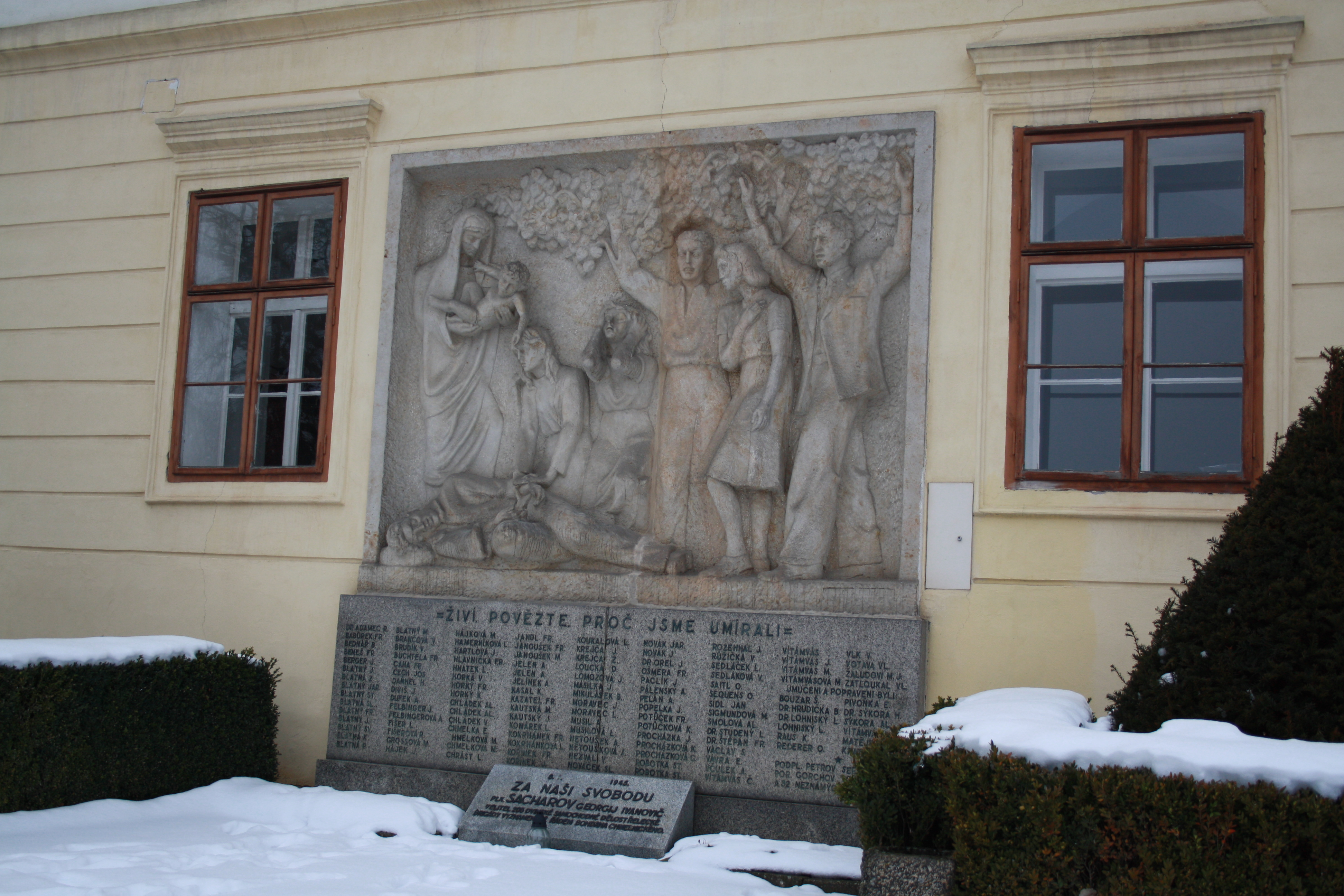 World War II memorial in Hrotovice, Třebíč District.